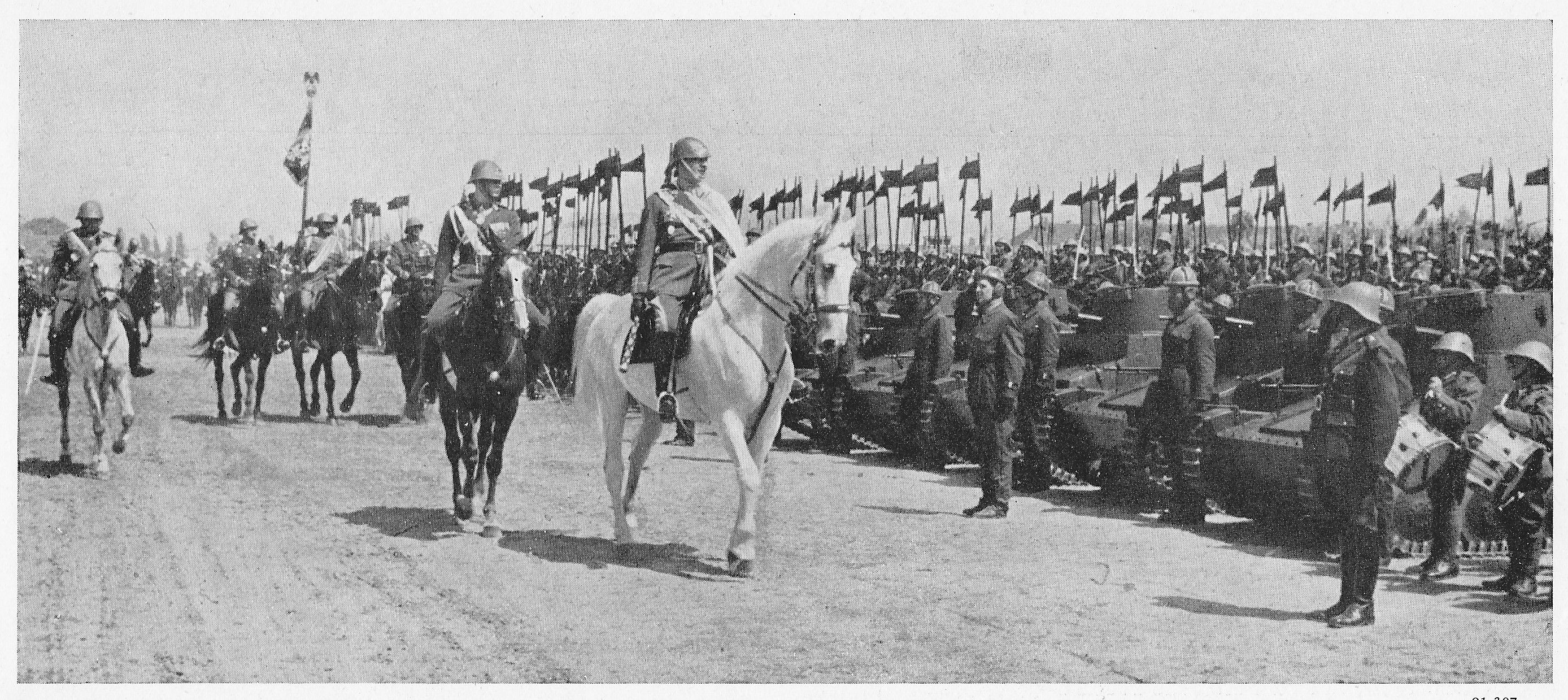 King Carol II of Romania and his son, future King Mihai of Romania inspect troops on national holiday 10 May 1939. Series of photographs had been published befor in Grănicerul magazine, May 1939